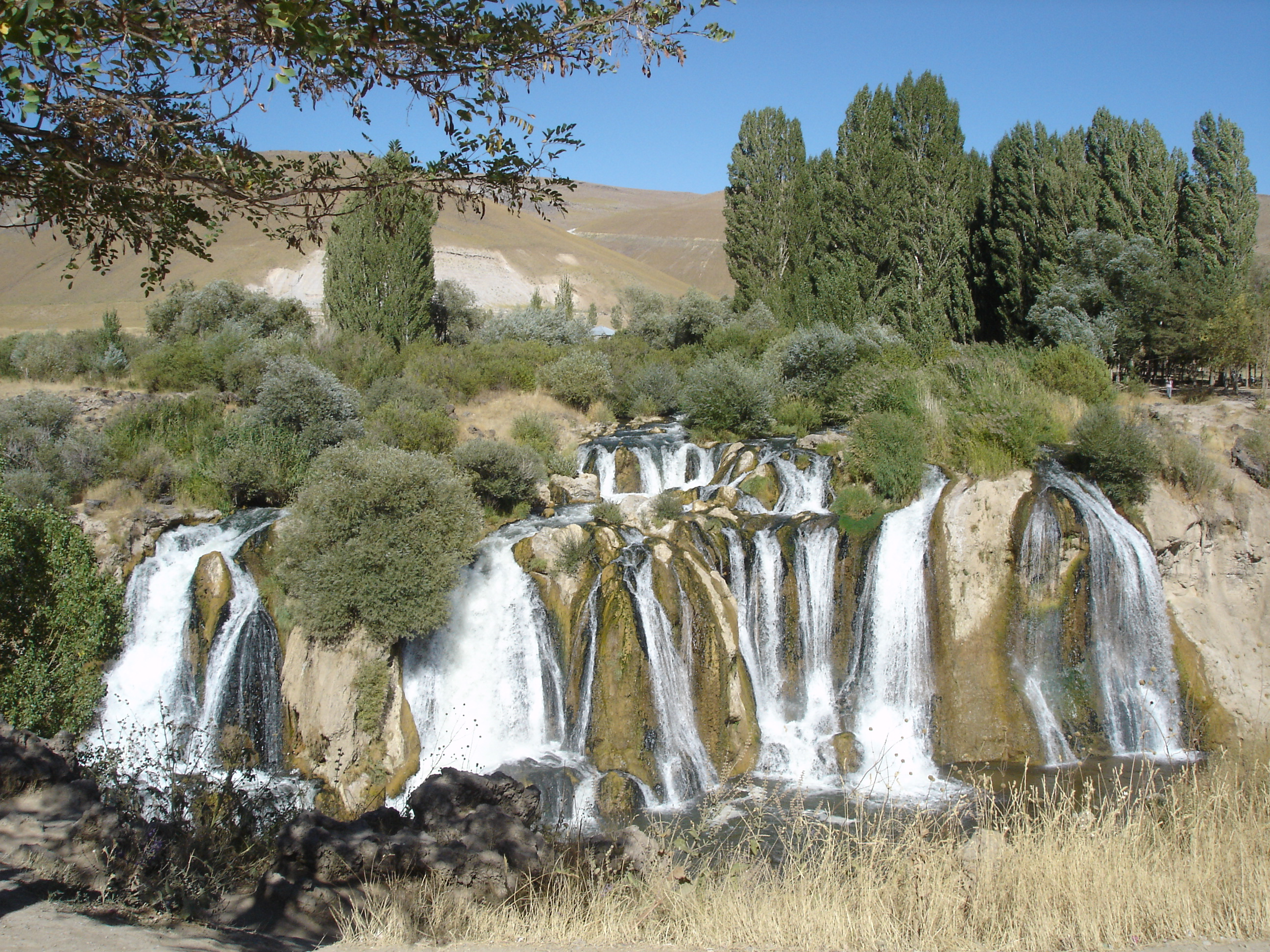 Muradiye-Waterfall